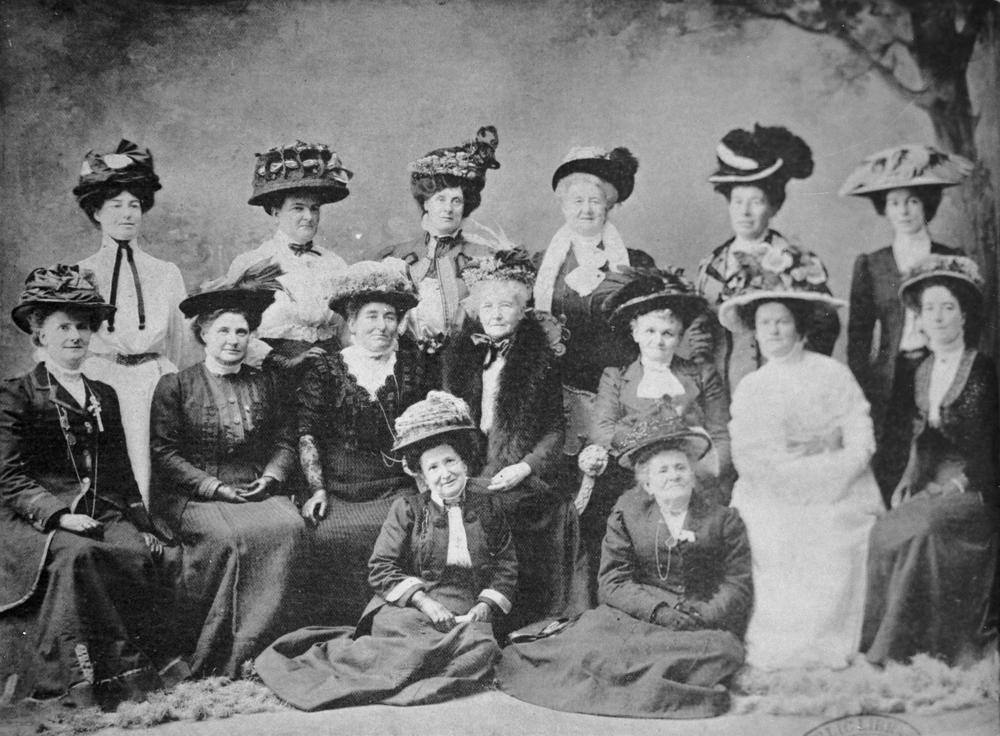 Delegates to the Australian Women's Conference in Brisbane, 1909 : [suffragette movement in Queensland] Celebrating the centenary of the suffrage movement in Queensland. On 5 January 1905, two years after the formation of the Queensland Women's Electoral League, the Electoral Franchise Bill was introduced into the Legislative Assembly to give the women of Queensland the right to vote. The Elections Acts Amendment Bill, providing the necessary machinery, was introduced at the same time. Despite some misgivings about abolishing the plural vote, and difficulty with postal voting, these issues were overcome and the legislation giving the women of Queensland the right to vote was finally passed. It was assented to by the Lieutenant-Governor on 26 January 1905.